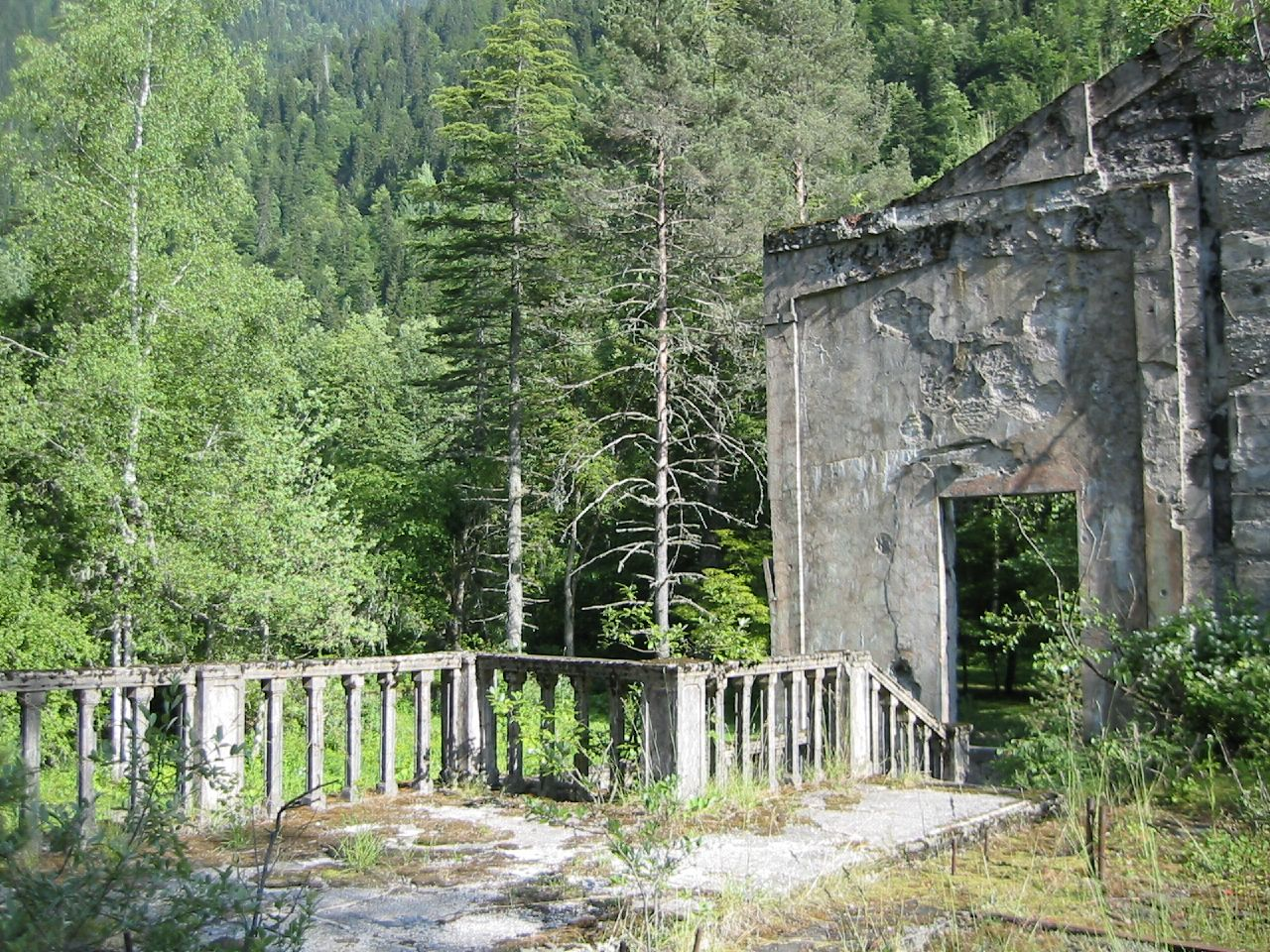 Ruins of Joseph Stalin's summer-house by the lake Ritsa. Foreground trees are (left to right) Betula sp., Abies nordmanniana, and Pinus sylvestris var. hamata.